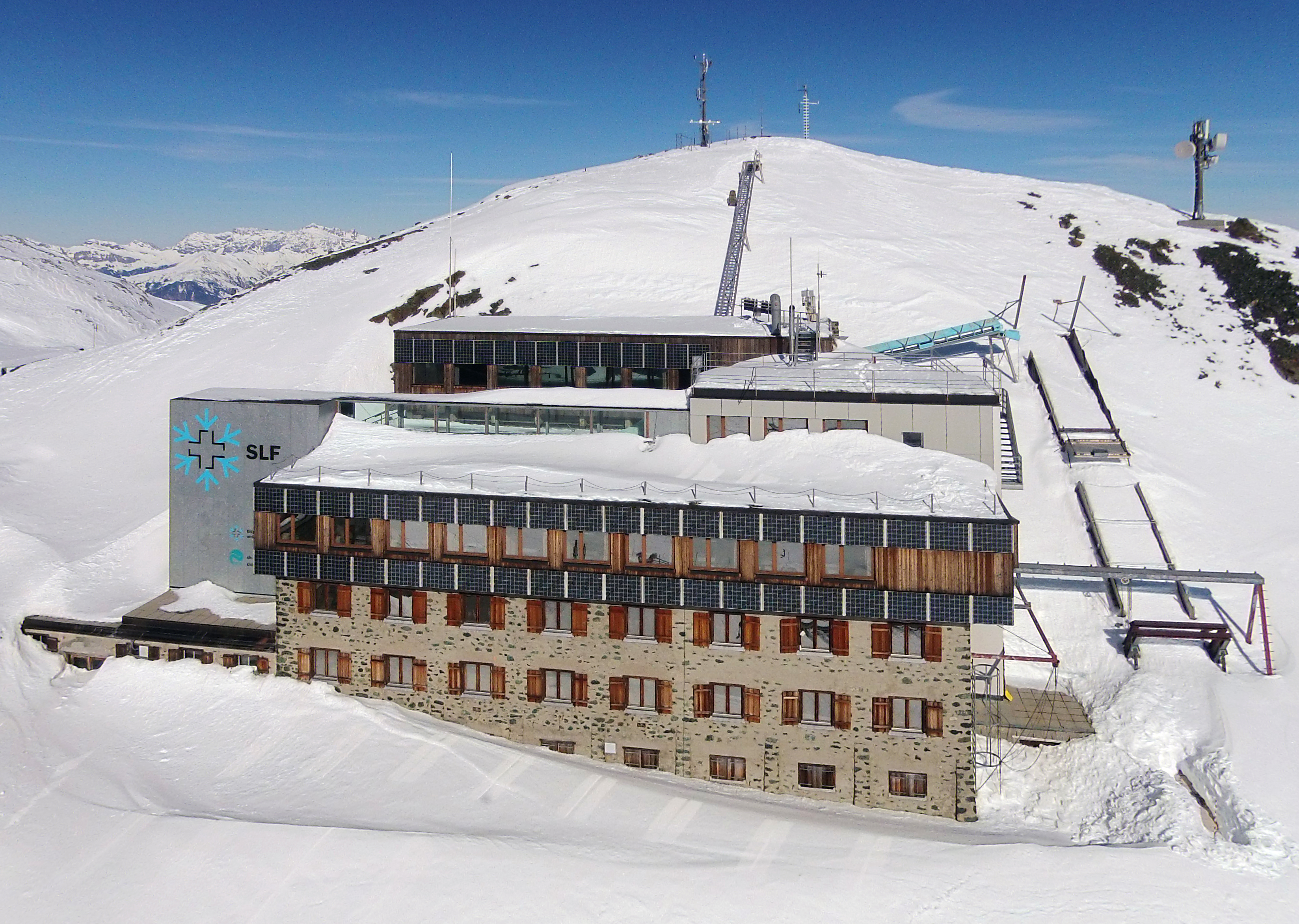 Aerial recording of Weissfluhjoch (2693 m, Davos/Klosters-Serneus/Arosa, Grisons, Switzerland) with the former main building of WSL Institute for Snow and Avalanche Research SLF